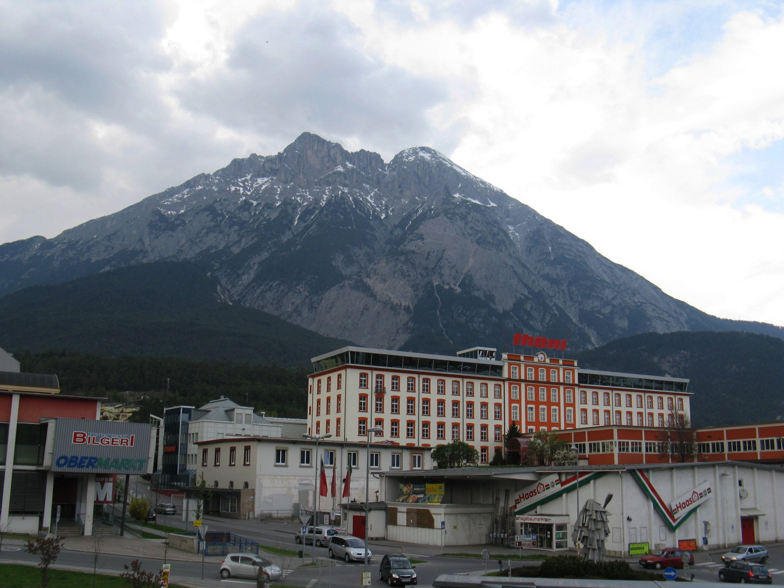 Thöni manufacturing company Telfs - Obermarkt, headquarter